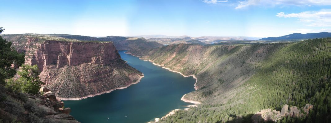 Flaming Gorge Reservoir in the Flaming Gorge National Recreation Area. On the Green River, Uintah Basin Section of northeastern Utah. Credits Pictures taken August 2004 by Bob Palin. 5 pictures stitched together.